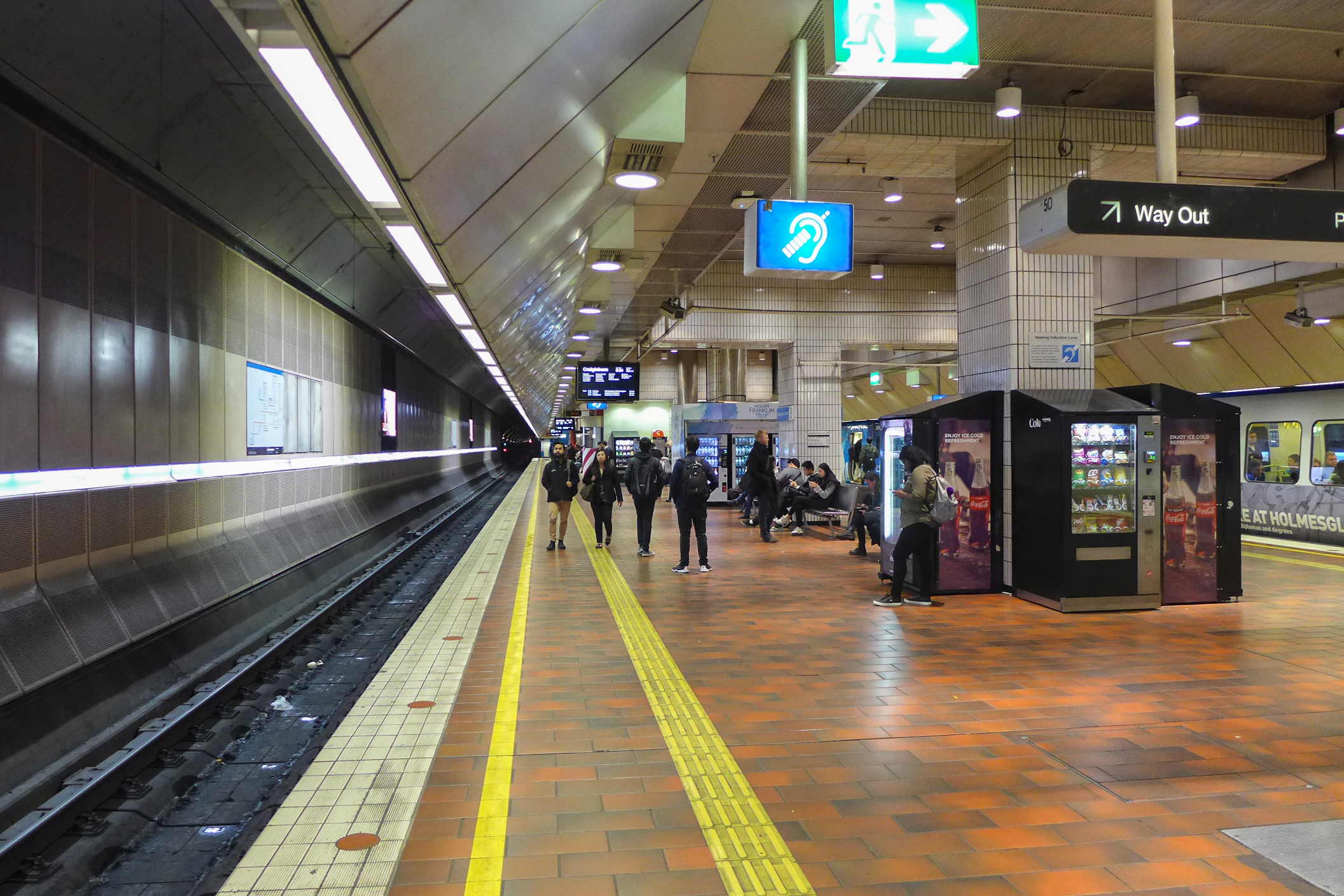 Melbourne Central Station Platform